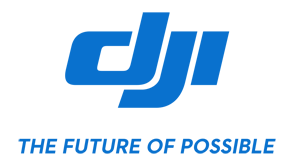 This is a logo for DJI Innovations. Includes slogan "The future of possible".